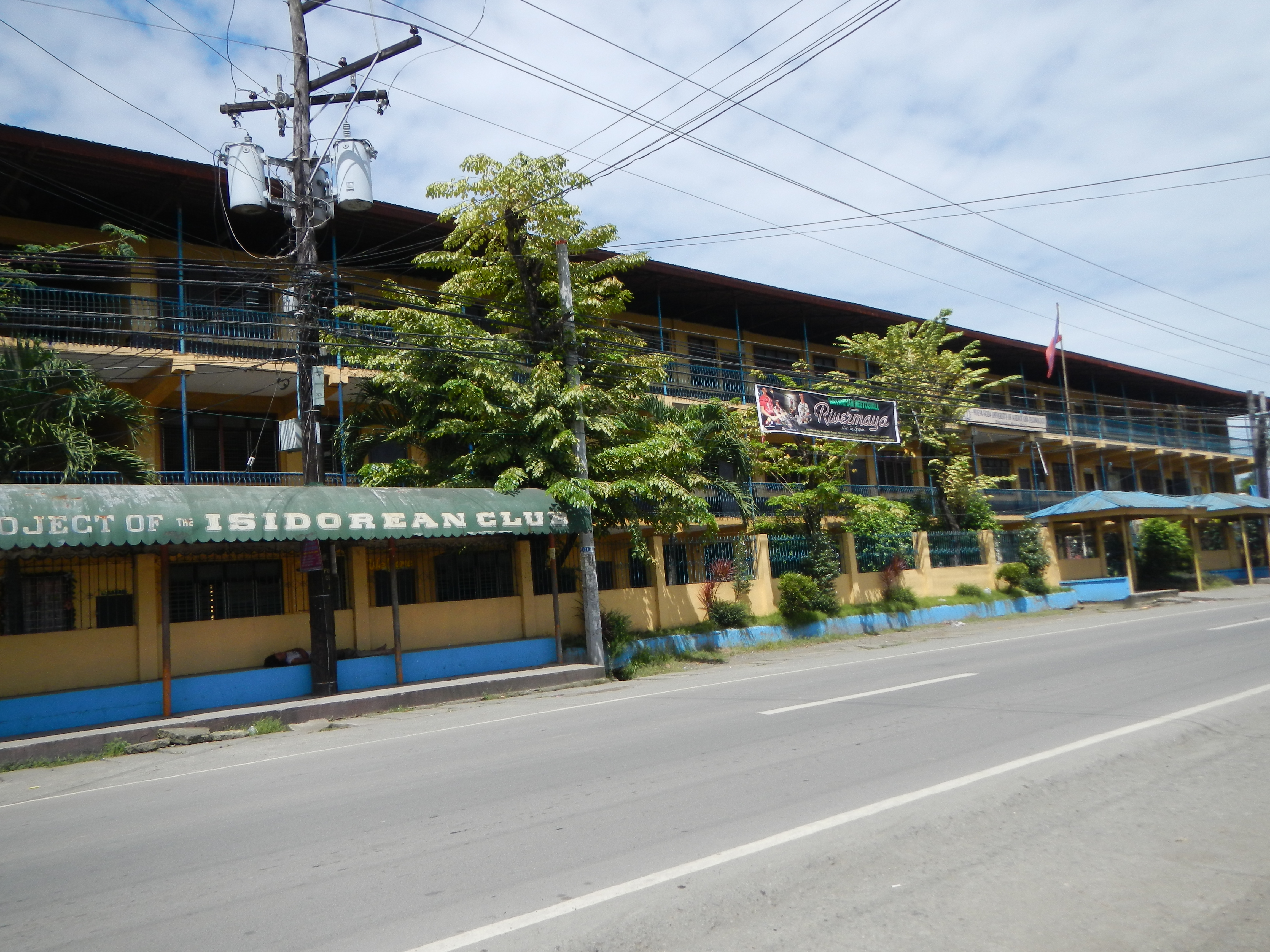 Nueva Ecija University of Science and TechnologySan Isidro, Nueva Ecija[1]